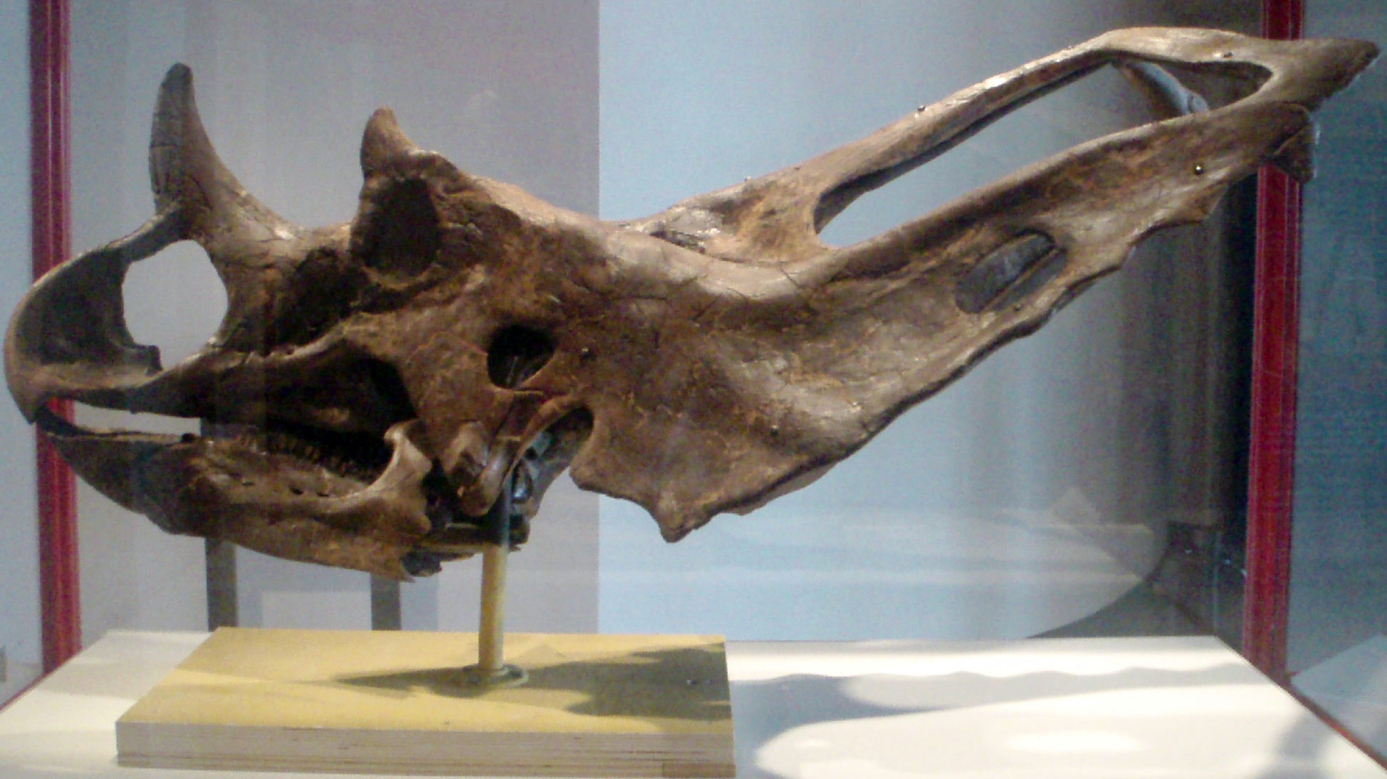 Skull of a Chasomosaurus belli ROM 5436, type of C. "brevirostris", on display at the Royal Ontario Museum, Toronto.